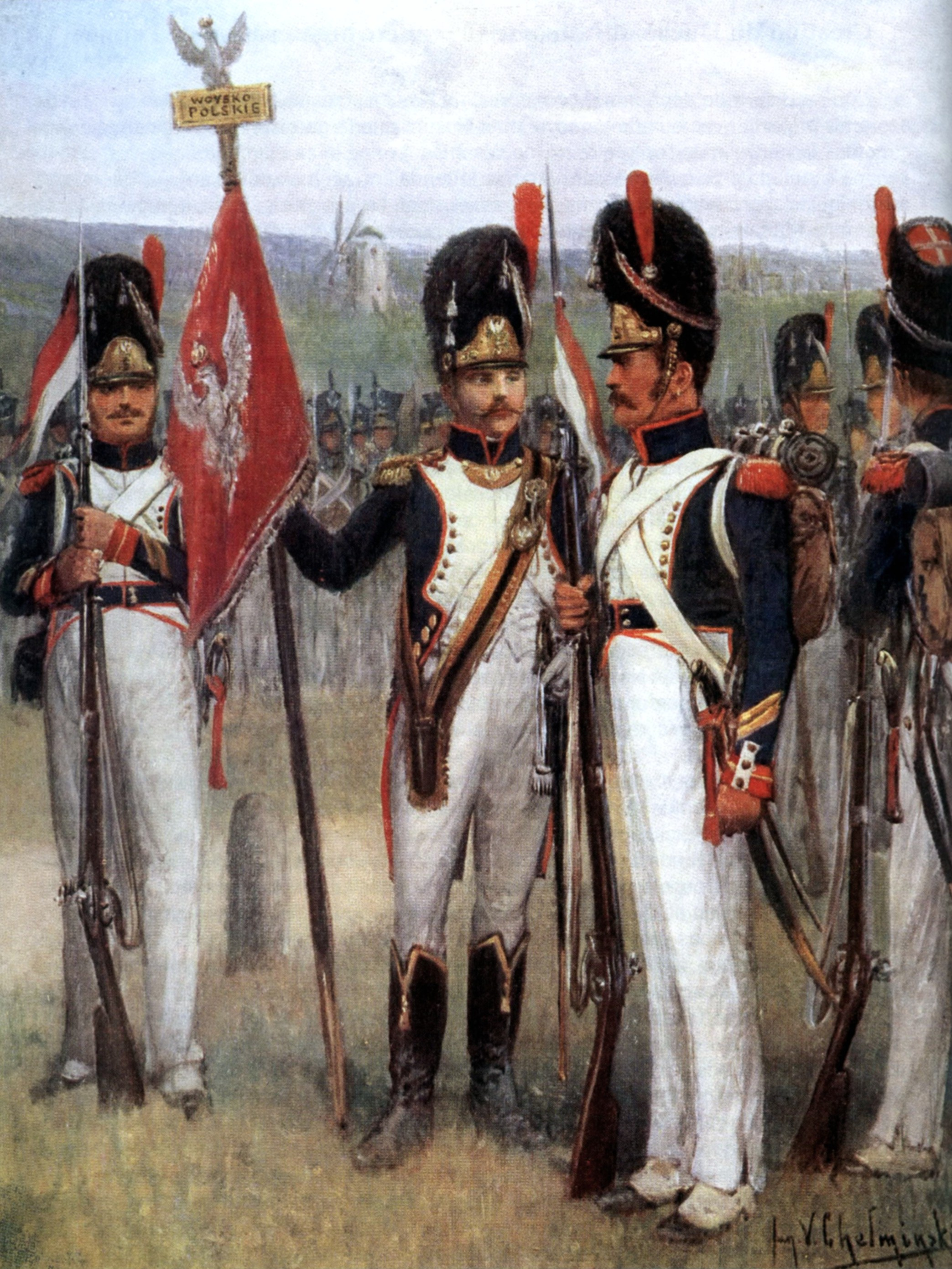 Banner of 5th Infantry Regiment of the Duchy of Warsaw.